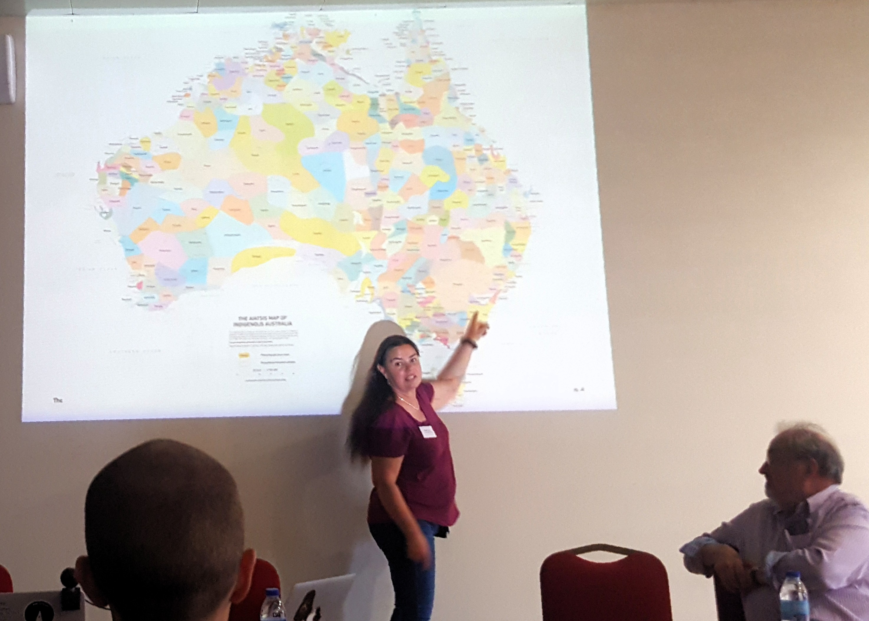 Professor Jakelin Troy explaining in CinC2017 congress (Alcanena, Portugal) how they recovered Dharug language.